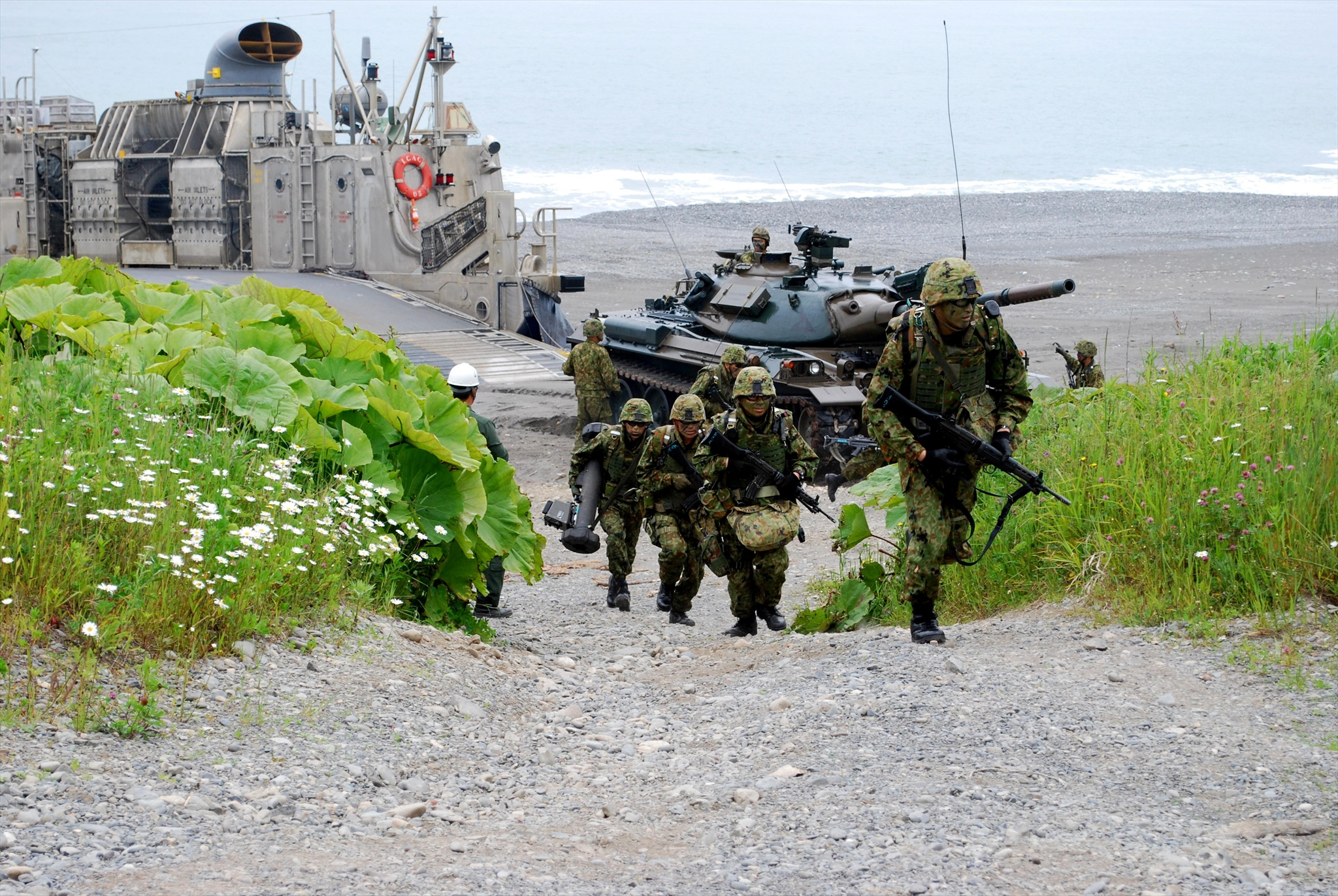 Title 6D-1 (協同転地演習・着上陸訓練)_R.JPG Album 教育訓練等 協同転地演習における着上陸訓練